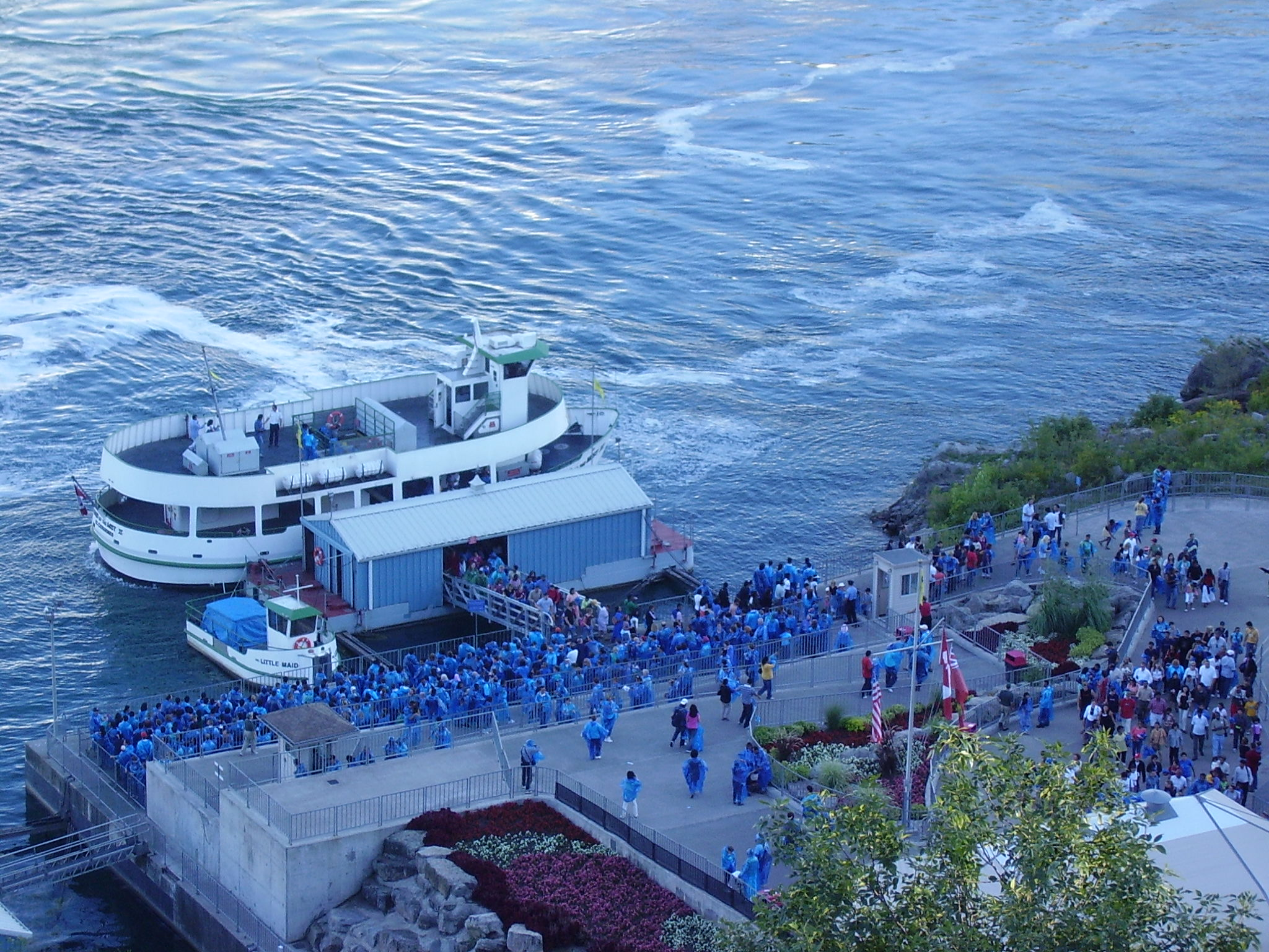 View of Maid of the Mist VI, a tourist boat, docked, waiting for tourists to embark/disembark.